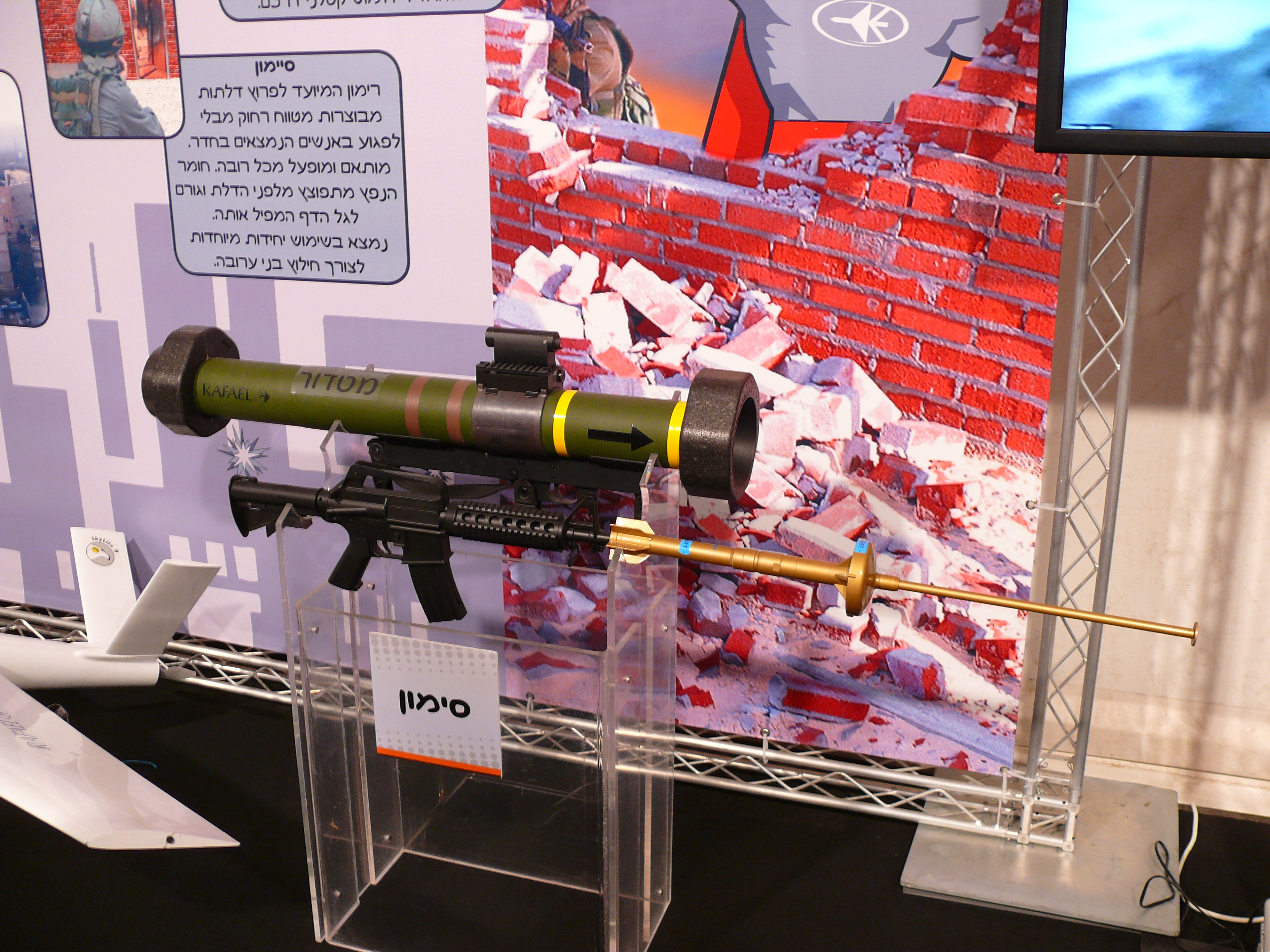 Above: Matador anti-tank anti-structure rocket, developed by Rafael Below: Simon anti-door rifle grenade